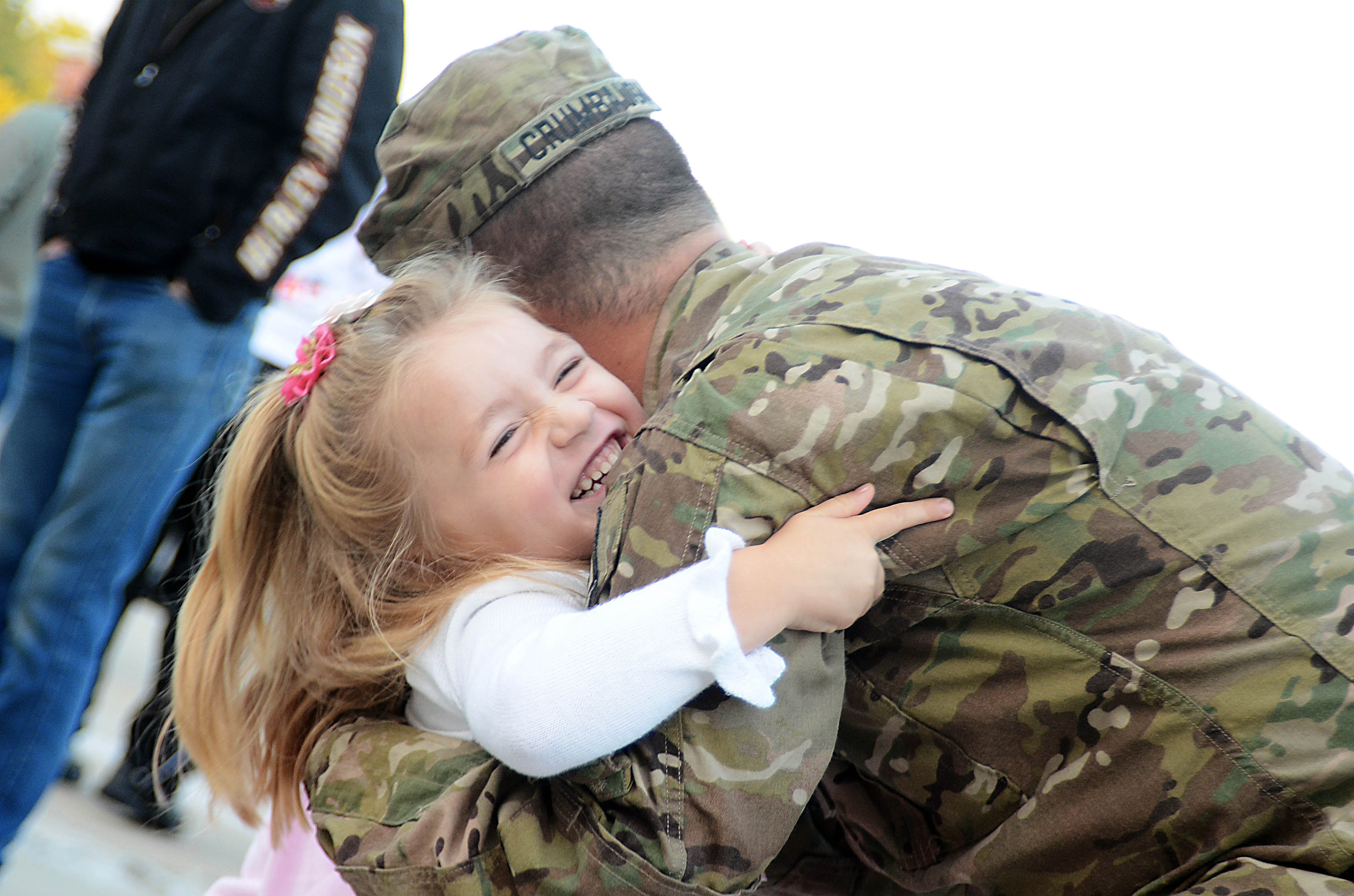 A Soldier from the Michigan National Guard, is welcomed home by his daughter after a year long tour in Afghanistan on Sept. 28, 2012. Photo by Staff Sgt. Helen Miller.